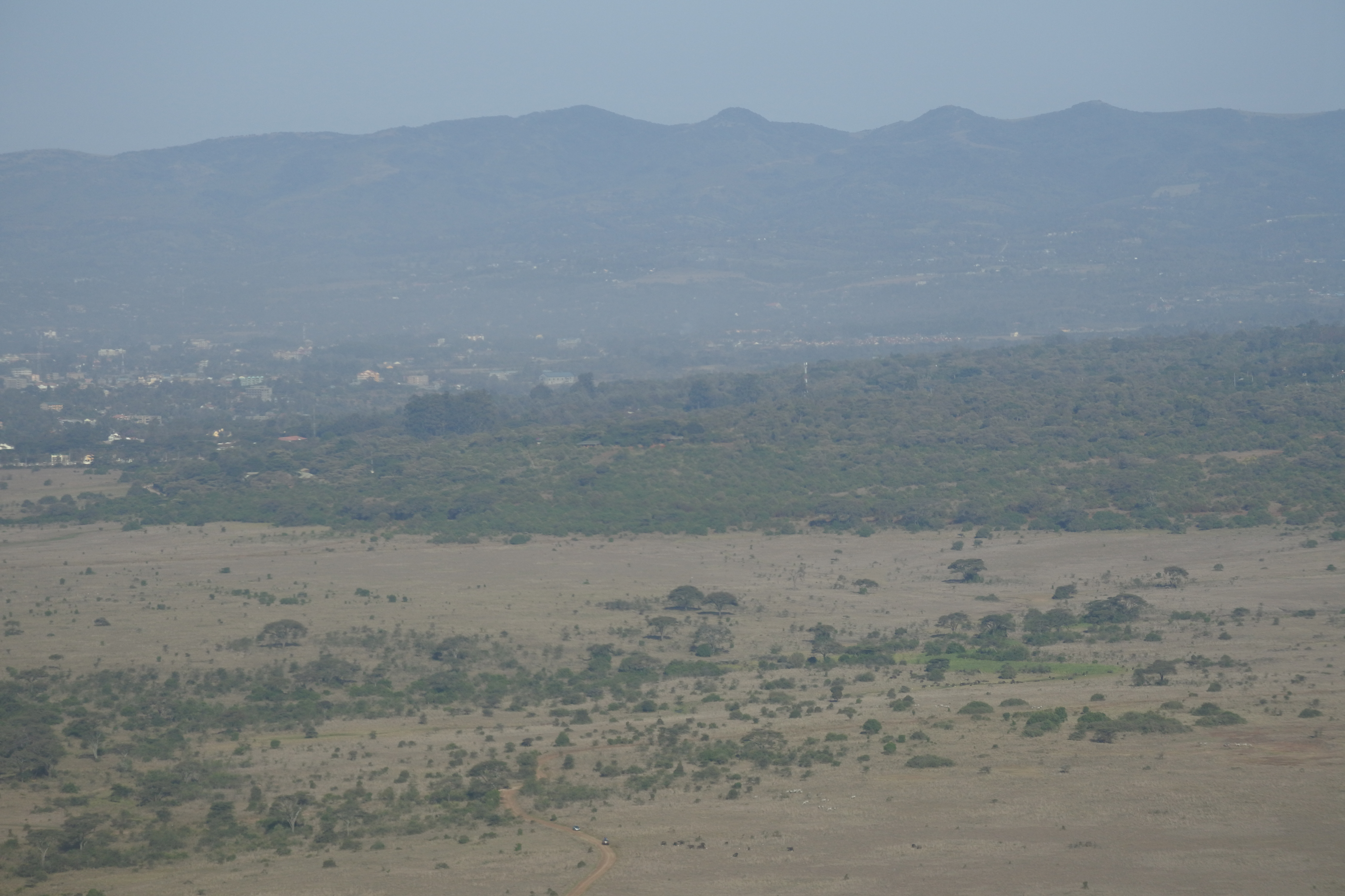 Nairobi National Park